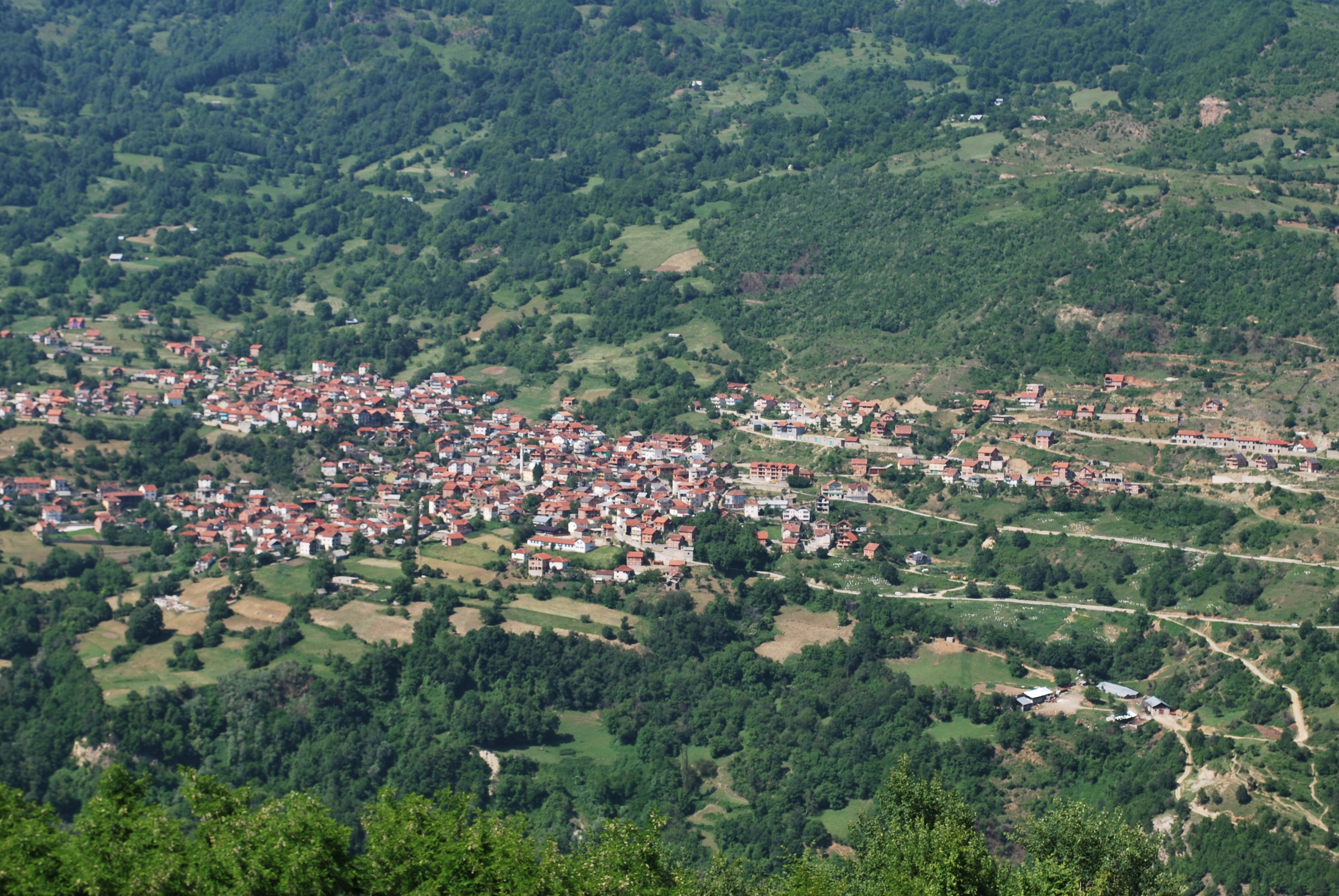 Village of Selce near Tetovo in Macedonia